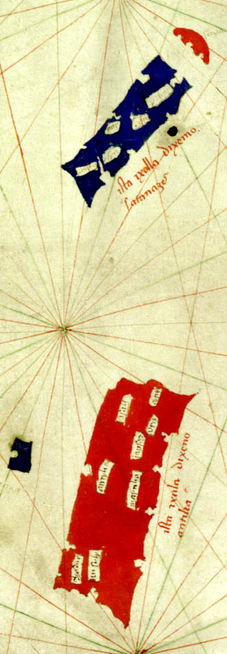 Detail of north Atlantic islands in the 1424 map of Zuane Pizzigano, held by the Biblioteca Palatina of Parma. The islands are the four islands of the Antillia group. Using Pizzigano's labels, it depicts Antilia (large red rectangle), Ymana (small blue island to the west), Satanazes (large blue rectangle to the north) and Saya (umbrella-shaped red cap far north)